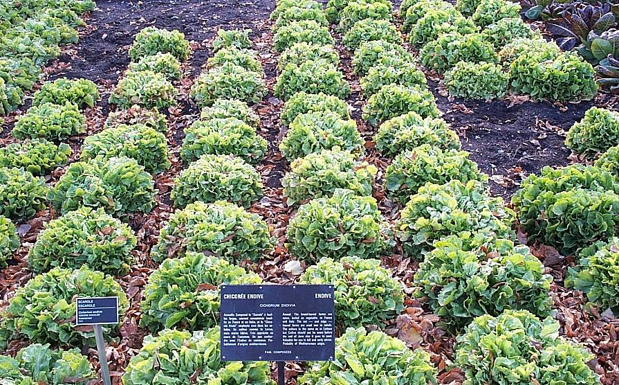 Endive at the Jardin botanique de Montréal.